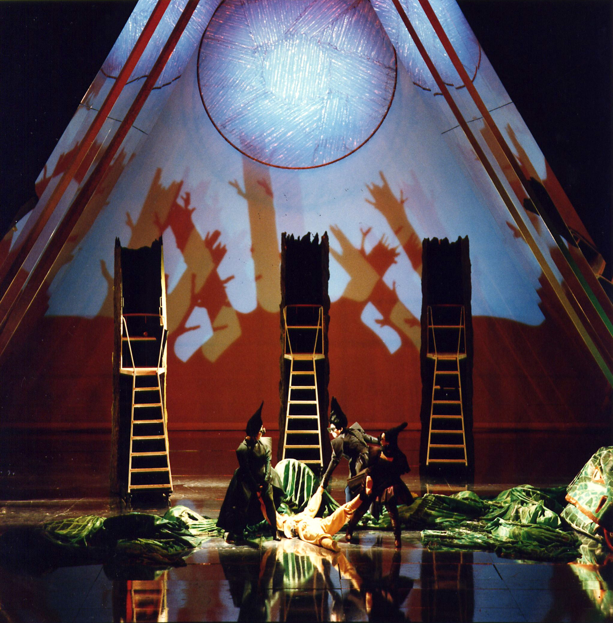 Jörg Zimmermann's scenic design for "Zauberflöte", directed by Peter Baumgardt, Städtische Bühnen Augsburg, Germany, 1992-97